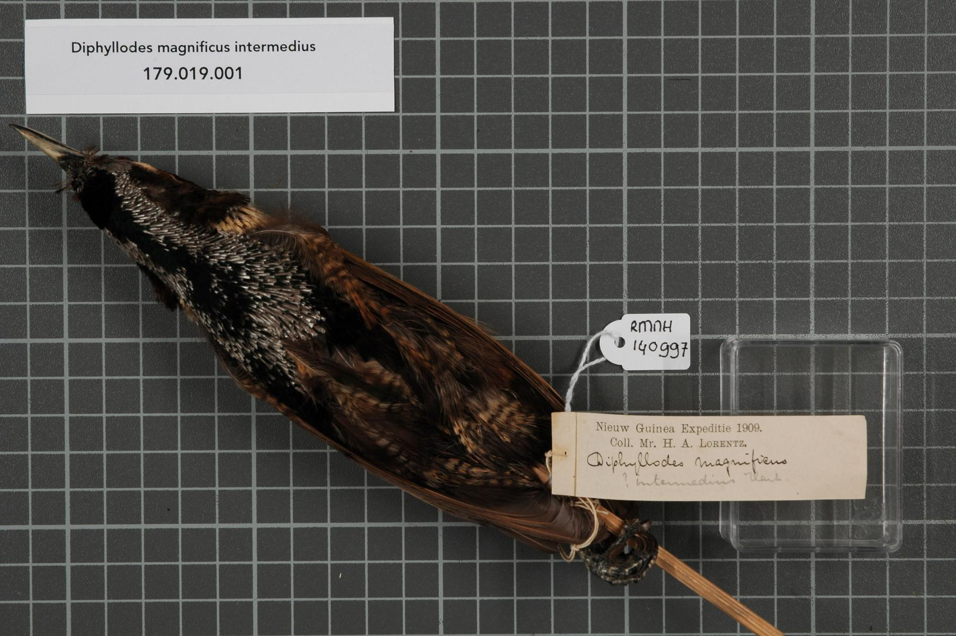 Diphyllodes magnificus intermedius (Hartert, 1930)